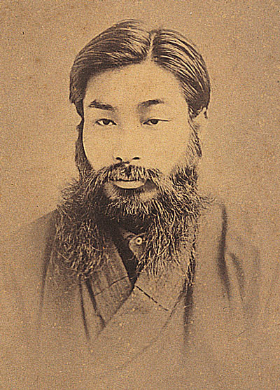 Terutsune Miyagawa